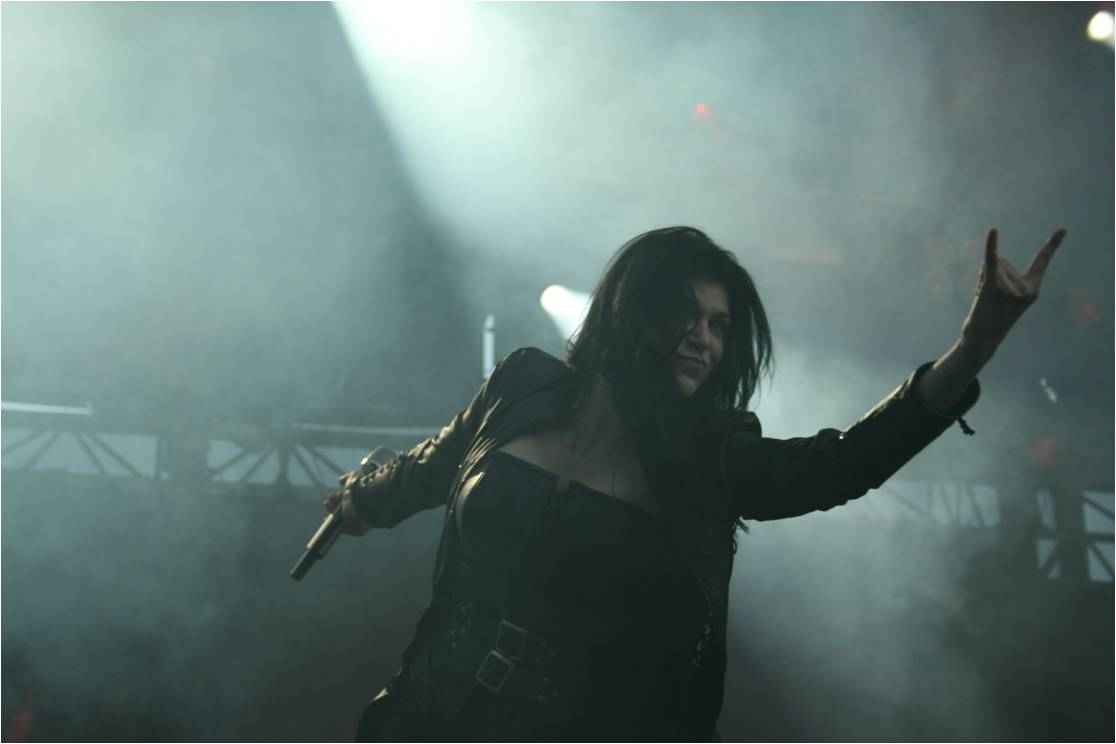 HolyHell at Norway Rock Festival 2009